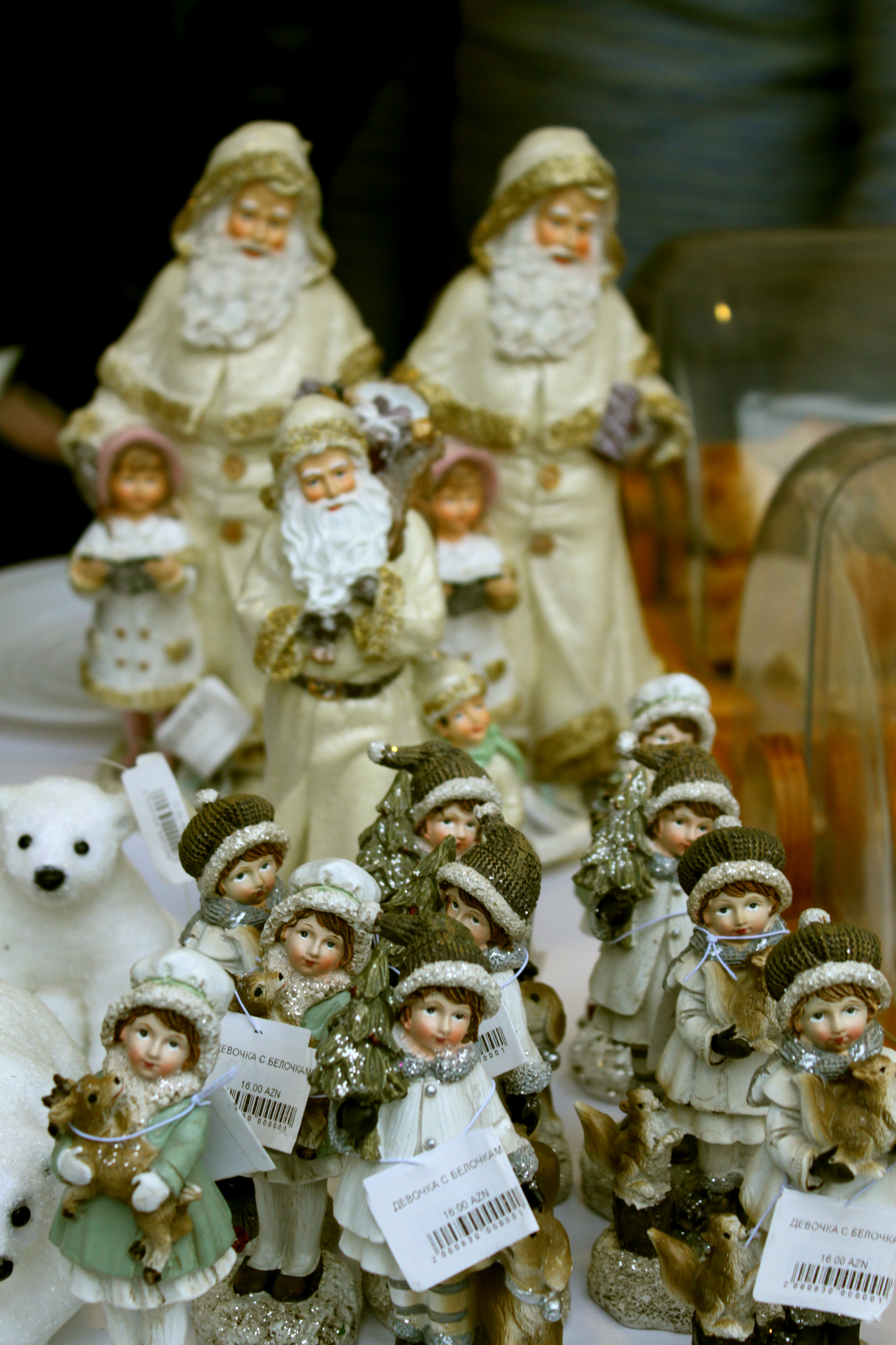 Christmas decorations in Christmas bazaar, Azerbaijan, 2013